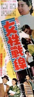 Movie poster for 1957 Korean movie A Woman's War (여성전선 Yeoseong jeonseon) aka Women at the Front.